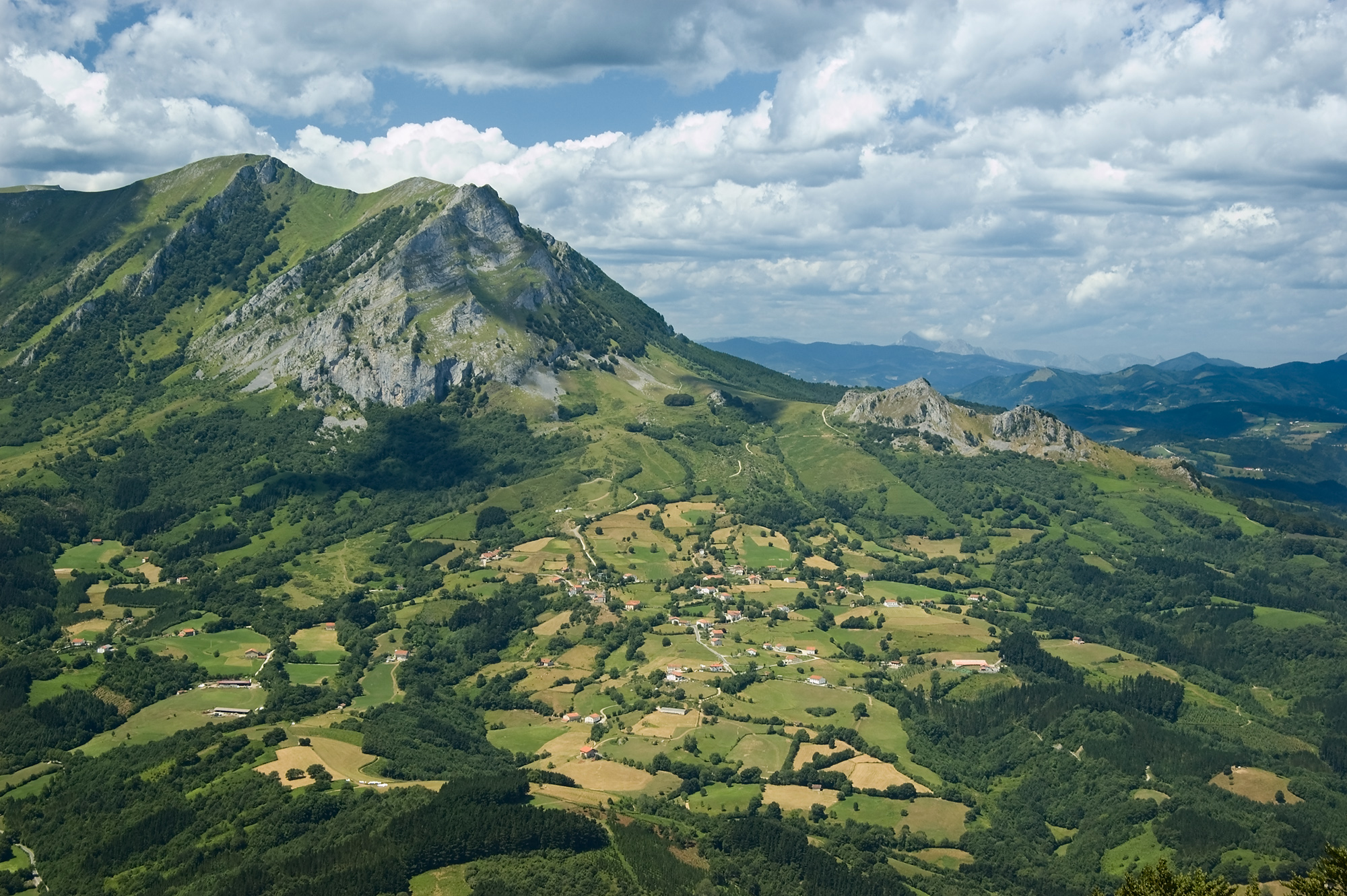 Balerdi mountain rises on top of the town of Azkarate. On the right Urreako Haitza can be seen, and just above, on the horizon, Anboto and Udalaitz.